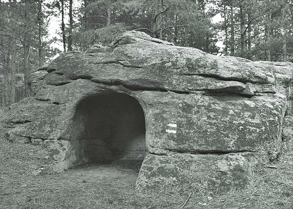 Dolmen tomb Hlyabovo BG